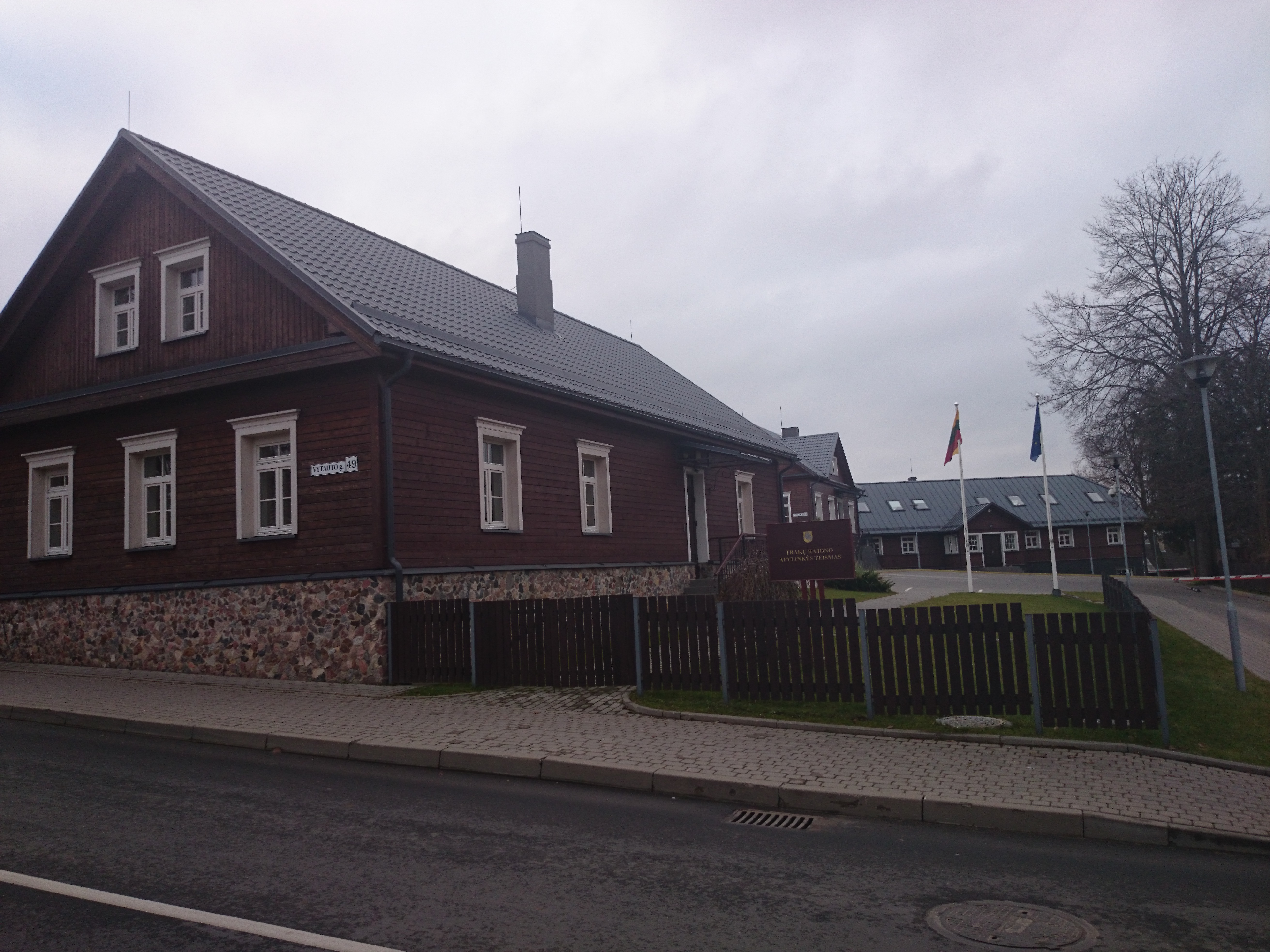 Trakai